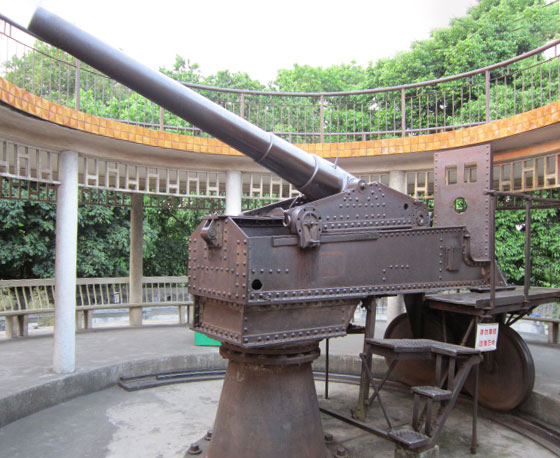 120 mm Krupp cannon manufactured in 1891 and bought by the Qing government to protect the southern border of China with Vietnam. 3.37 m high, barrel 4.15 m long and 0.12 m in diameter. Now in the grounds of Guangxi Autonomous Region Museum, Nanning, Guangxi.